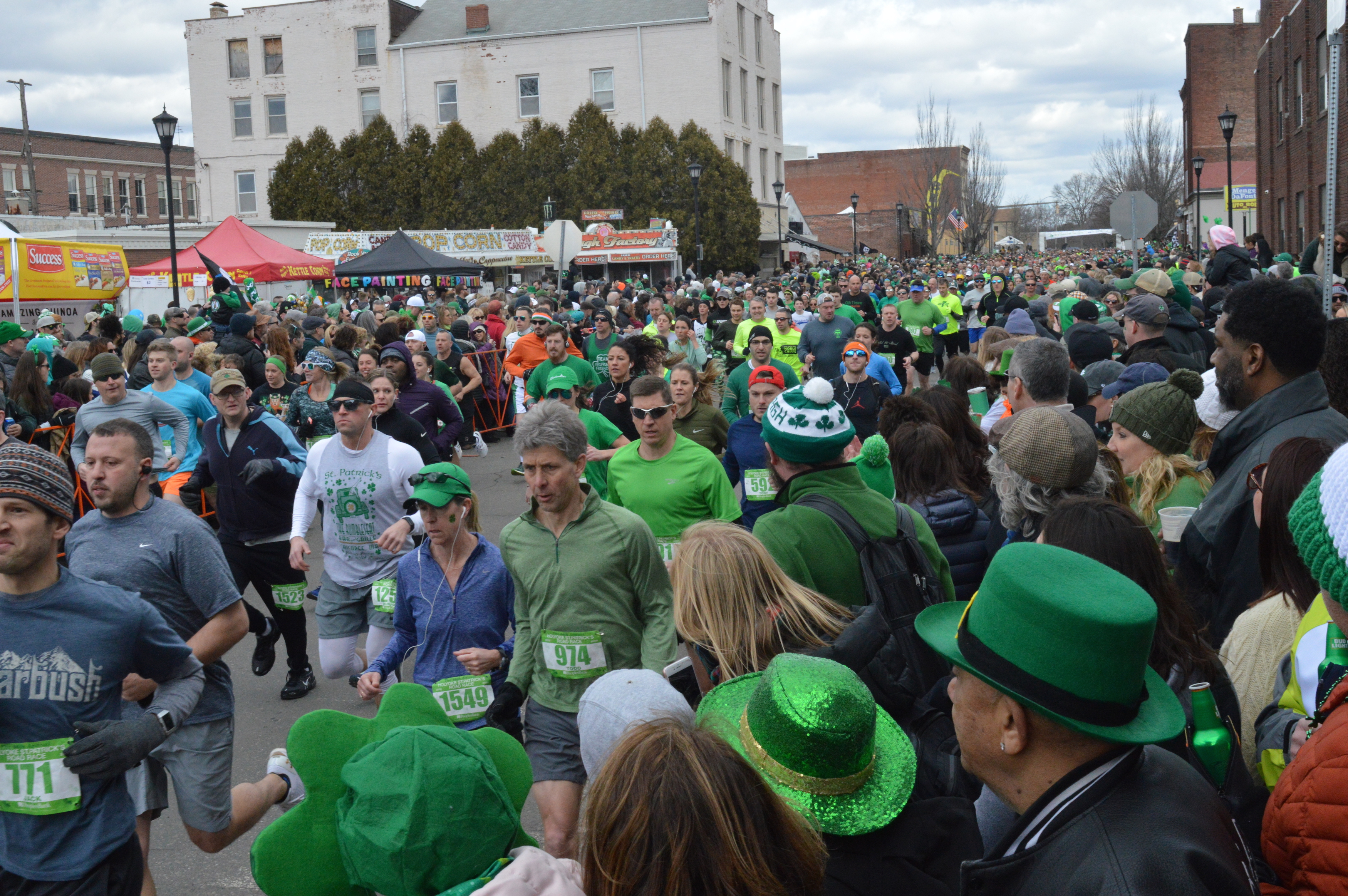 Runners leave the starting line on Maple Street, in the 44th annual Holyoke St. Patrick's Day Road Race, a 10k run hosted annually the Saturday before the St. Patrick's Parade.